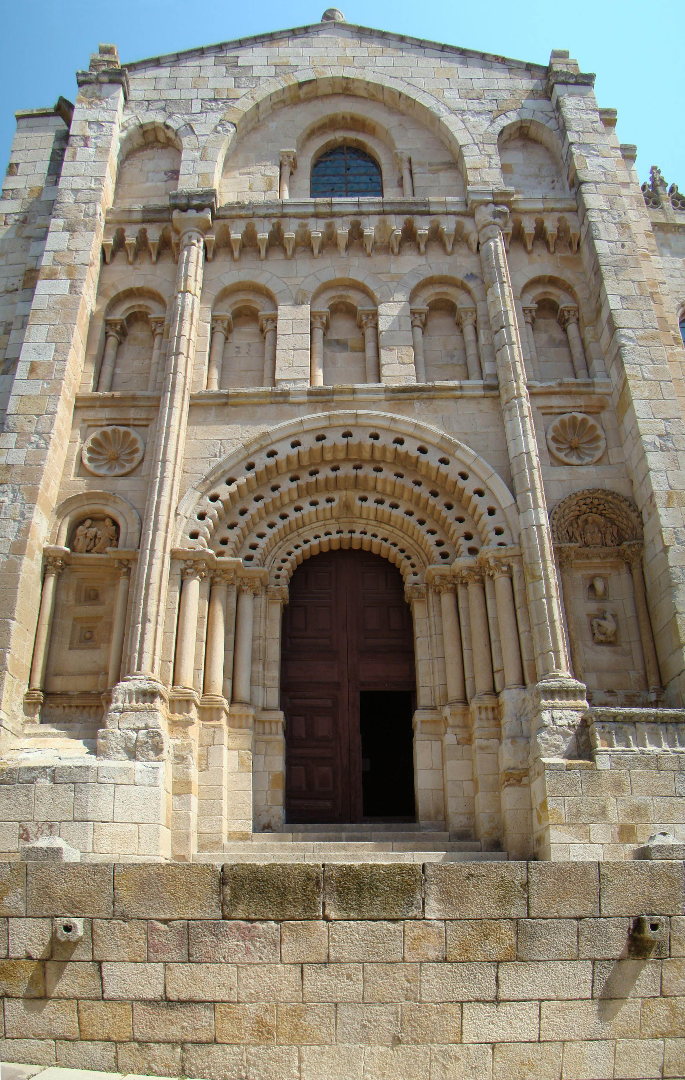 Romanic gateway (called "from the bishop") in the cathedral of Zamora (Spain).